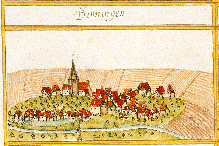 View of Benningen am Neckar from the forest register books created by Andreas Kieser